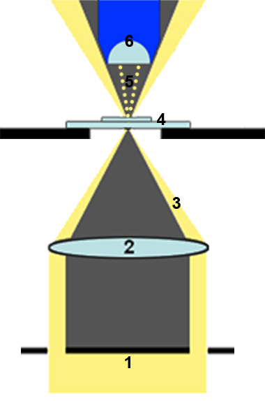 Scheme of dark field microscopy with a central light stop